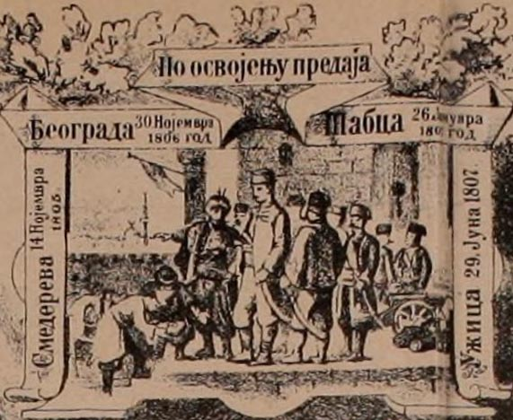 Illustration depicting the Ottomans handing over Smederevo, Belgrade, Šabac and Užice to the Serbian Revolutionaries under Karađorđe in November 1806–June 1807.Srpskohrvatski / српскохрватски: "Po osvojenju predaja"